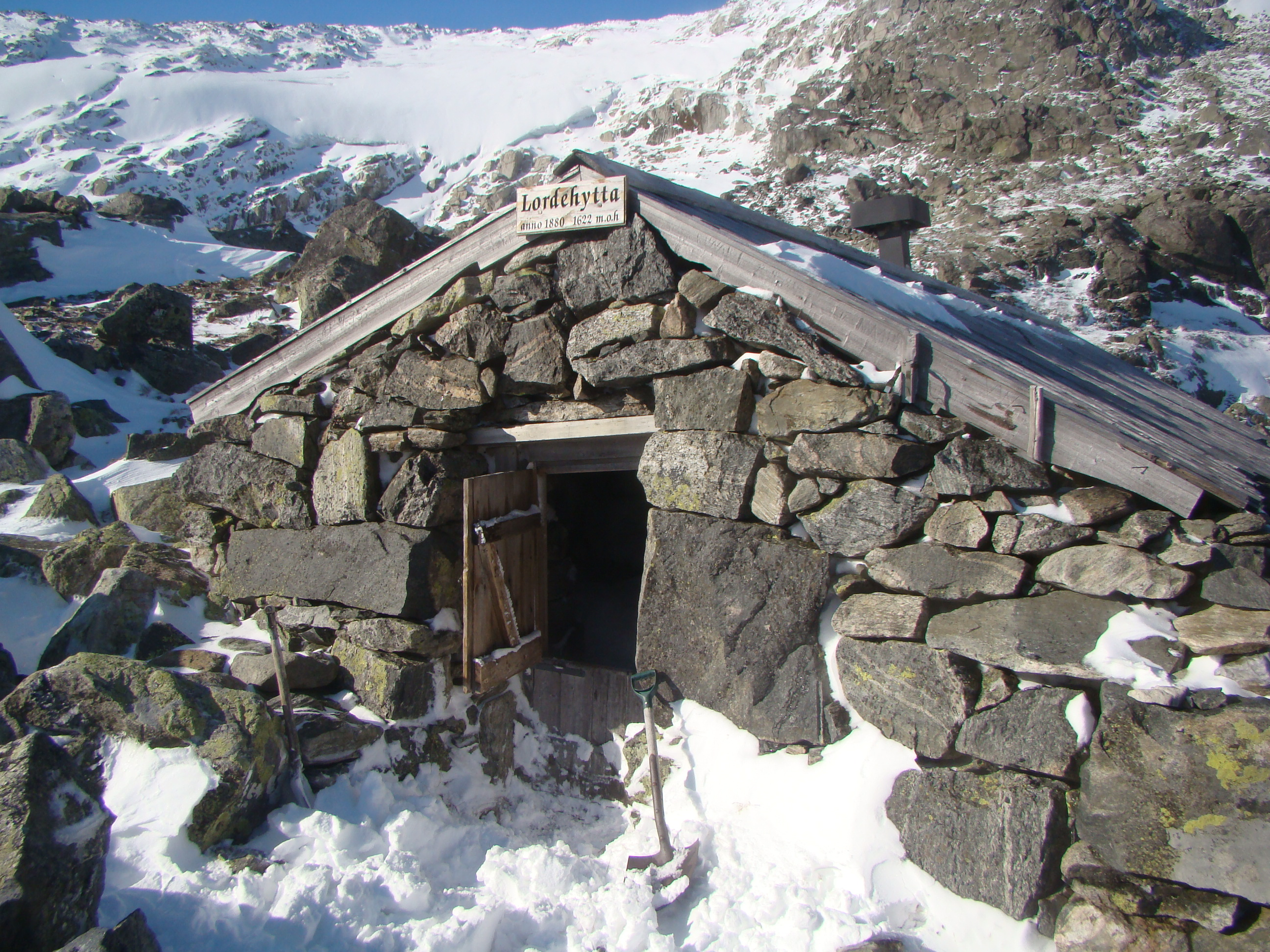 Lordehytta — a dry stone hut-cabin, built around 1880 in Norway. The cabin is located 1620 meters elevation, in Folarskaret on Hallingskarvet in Category:Hallingskarvet National Park. සිංහල: ලෝඩ්හිත්තා යනු නෝර්වේවල පිහිටා ඇති ගලෙන් සාදන ලද කුඩා ගෙයකි. ලෝඩ්හිත්තා යන්න ලෝඩ්ගේ කැබින් එනම් රදළයාගේ නිවස යන තේරුම් දේ.